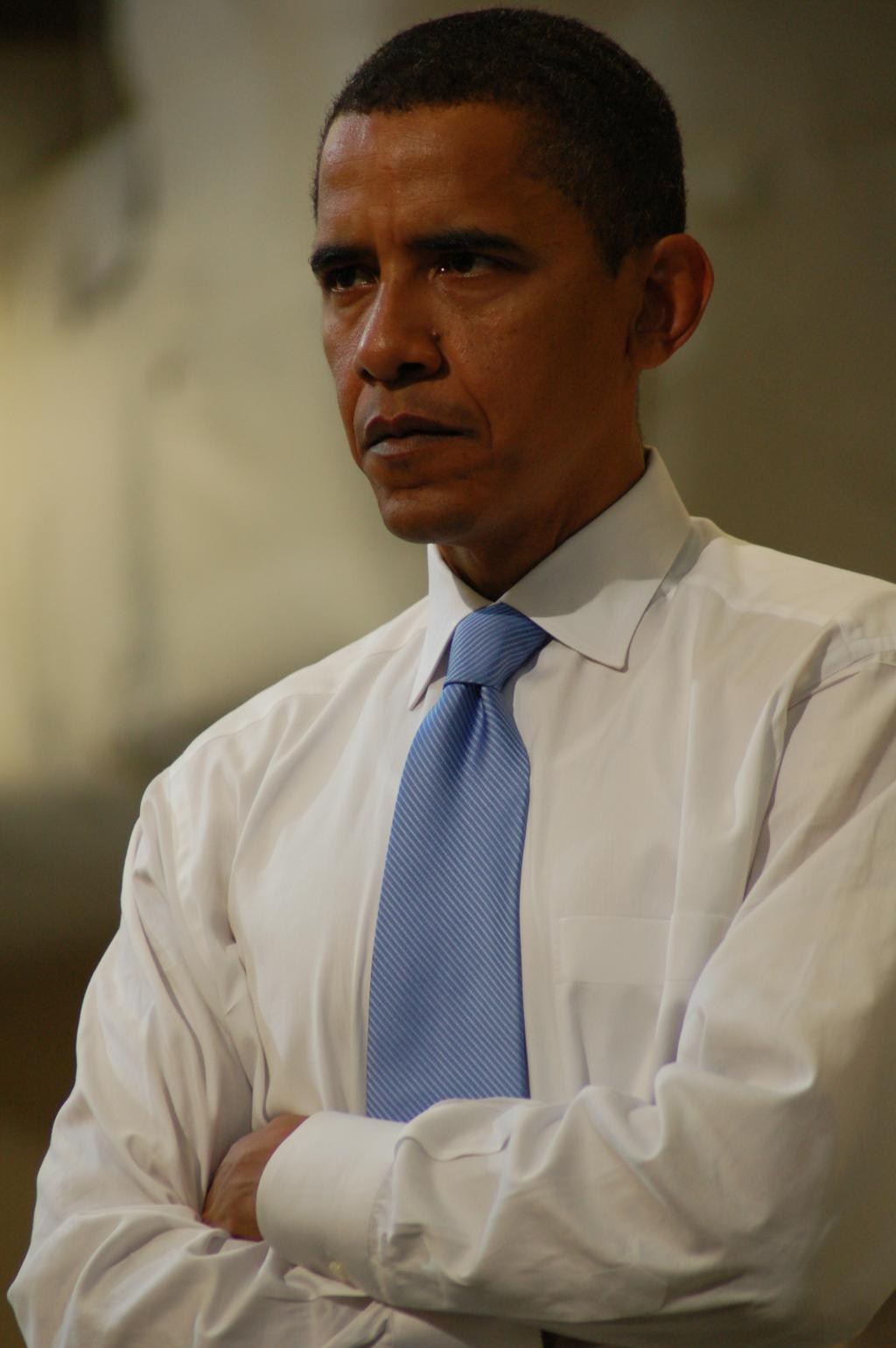 Barack Obama